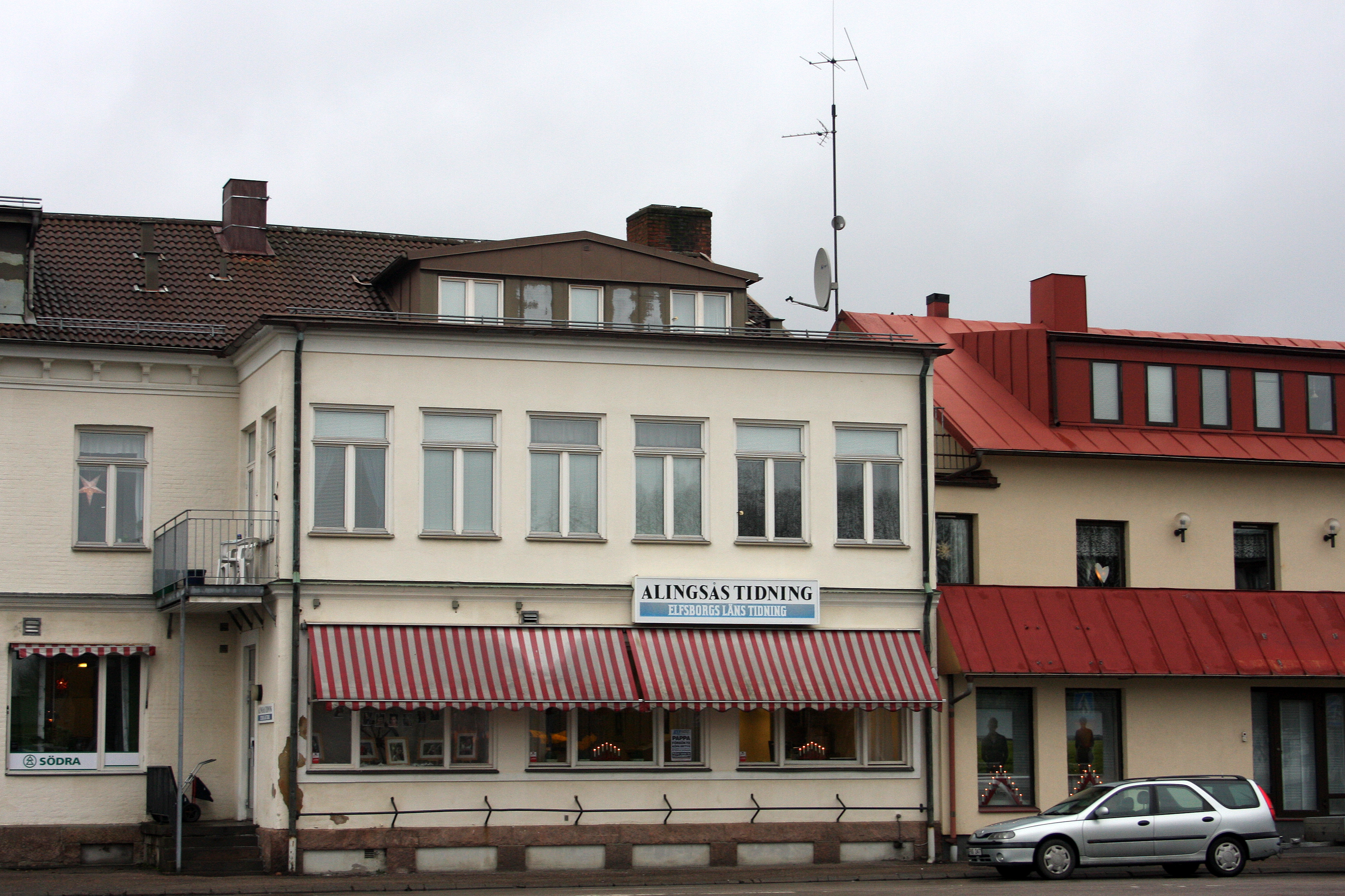 Vårgårda office of local Newspaper Alingsås tidning